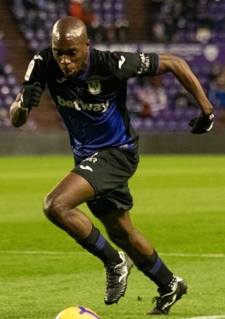 Real Valladolid - C. D. Leganés, 14th fixture of the 2018-19 La Liga, December 1, 2018.